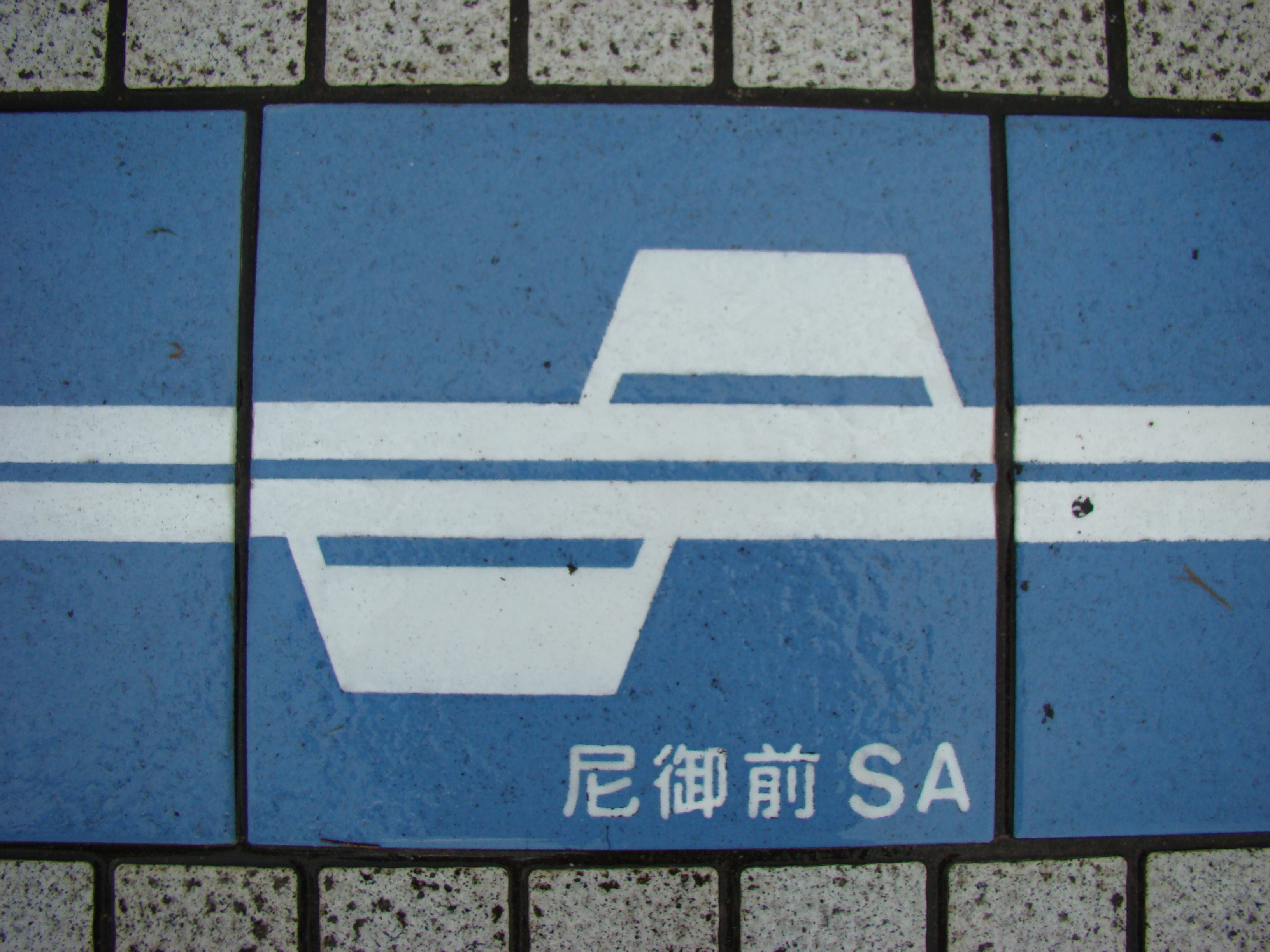 The tile which designed a shape of the Amagozen Service Area（Hokuriku Expressway）（There is this tile in Hokuriku Expressway Nadachi-Tanihama Service Area.）. Place - Chayagahara,Joetsu City,Niigata Prefecture,Japan Date - August 9, 2009 Format - JPEG, 3264x2448pixel, 24bit colors. Photographer - NALA Wiki (talk)